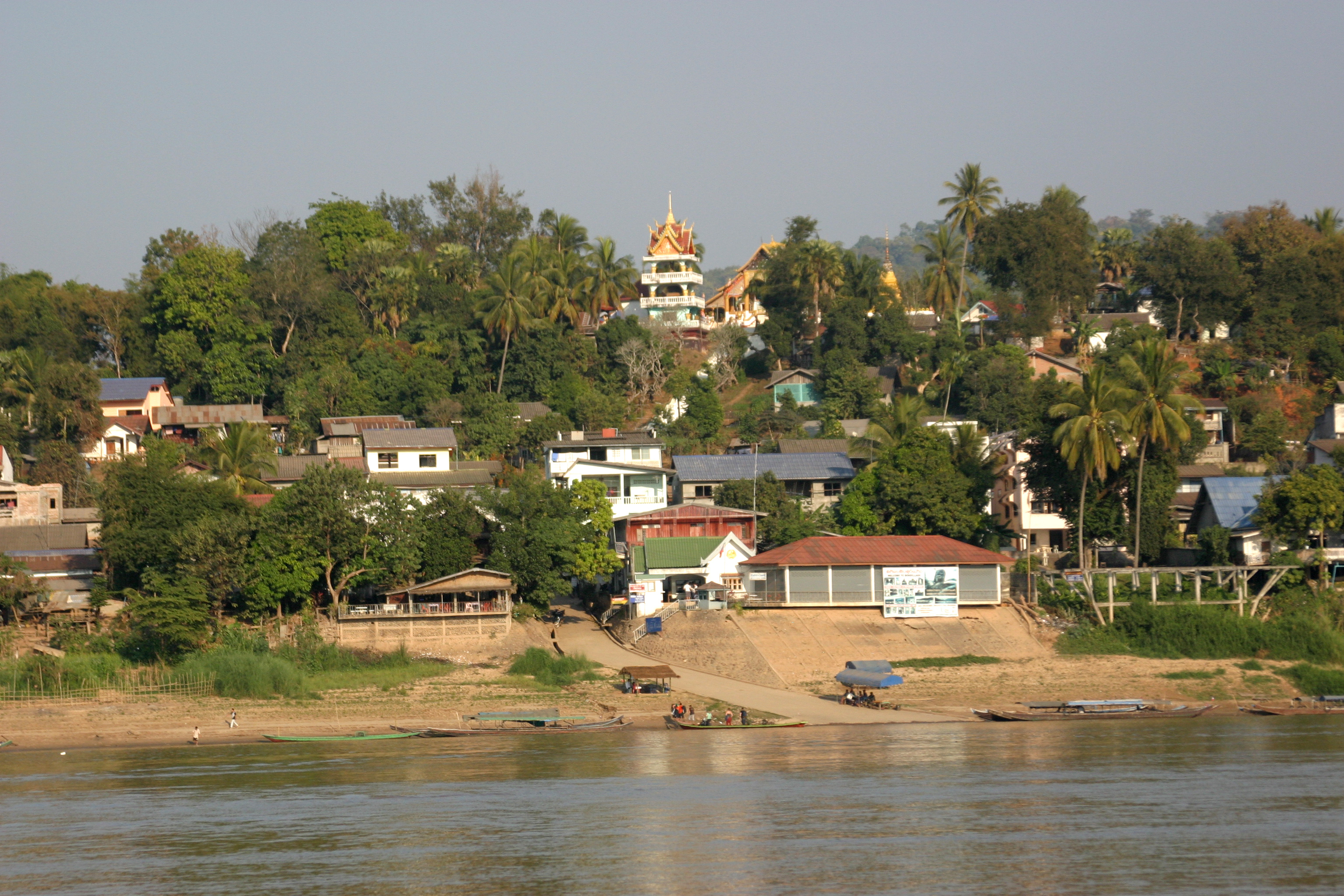 View from Chiang Khong, Thailand